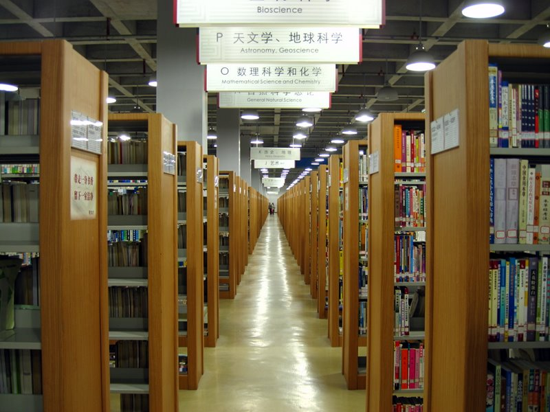 Bookshelves in Chongqing Library,China. 中文（中国大陆）: 重庆图书馆里面的书架。